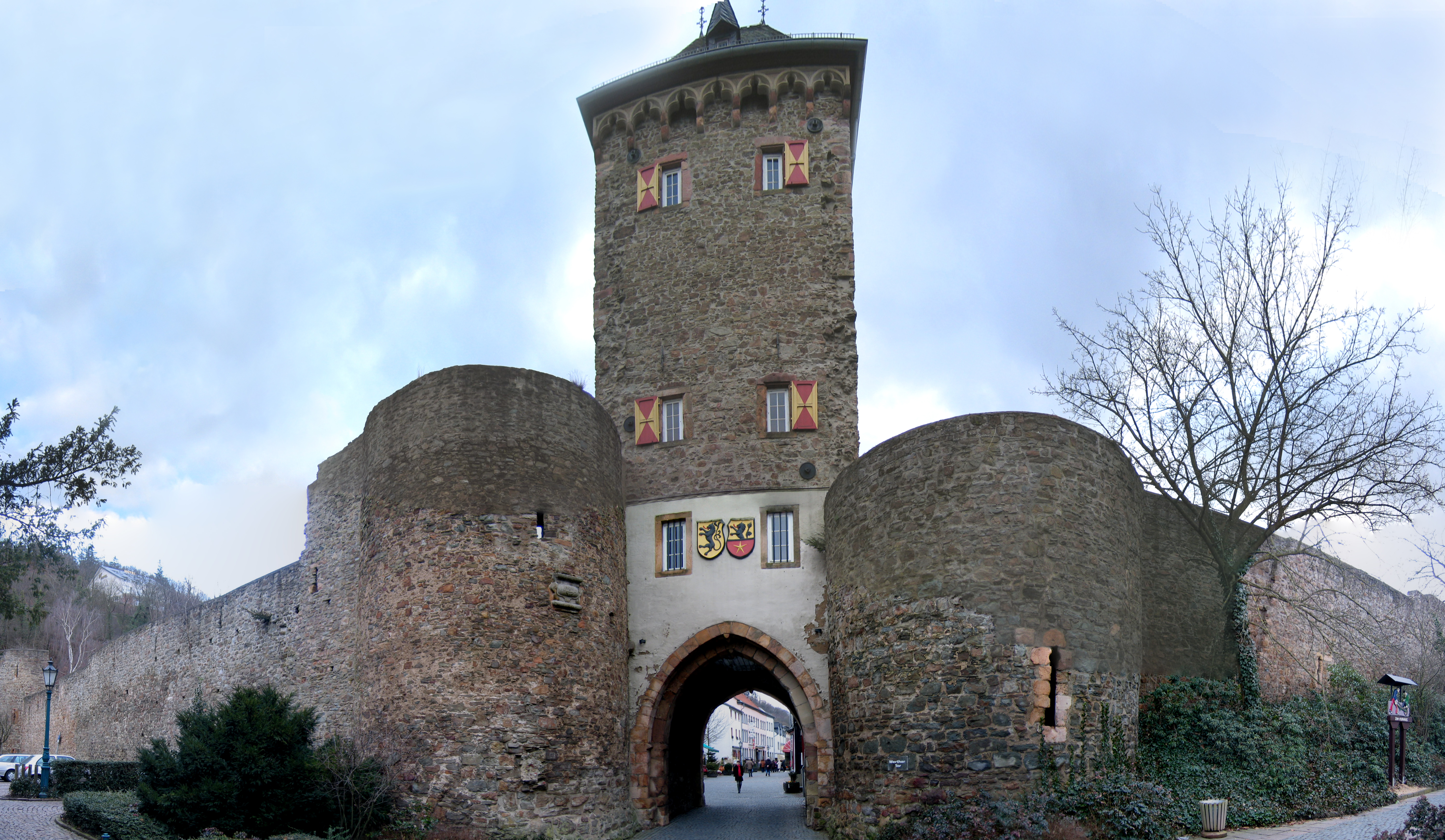 Gate tower Bad Münstereifel, North Rhine-Westphalia, Germany.